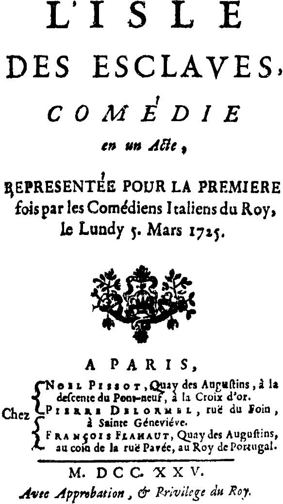 Cover of Slave Island (1725) by Pierre de Marivaux (1688-1763)